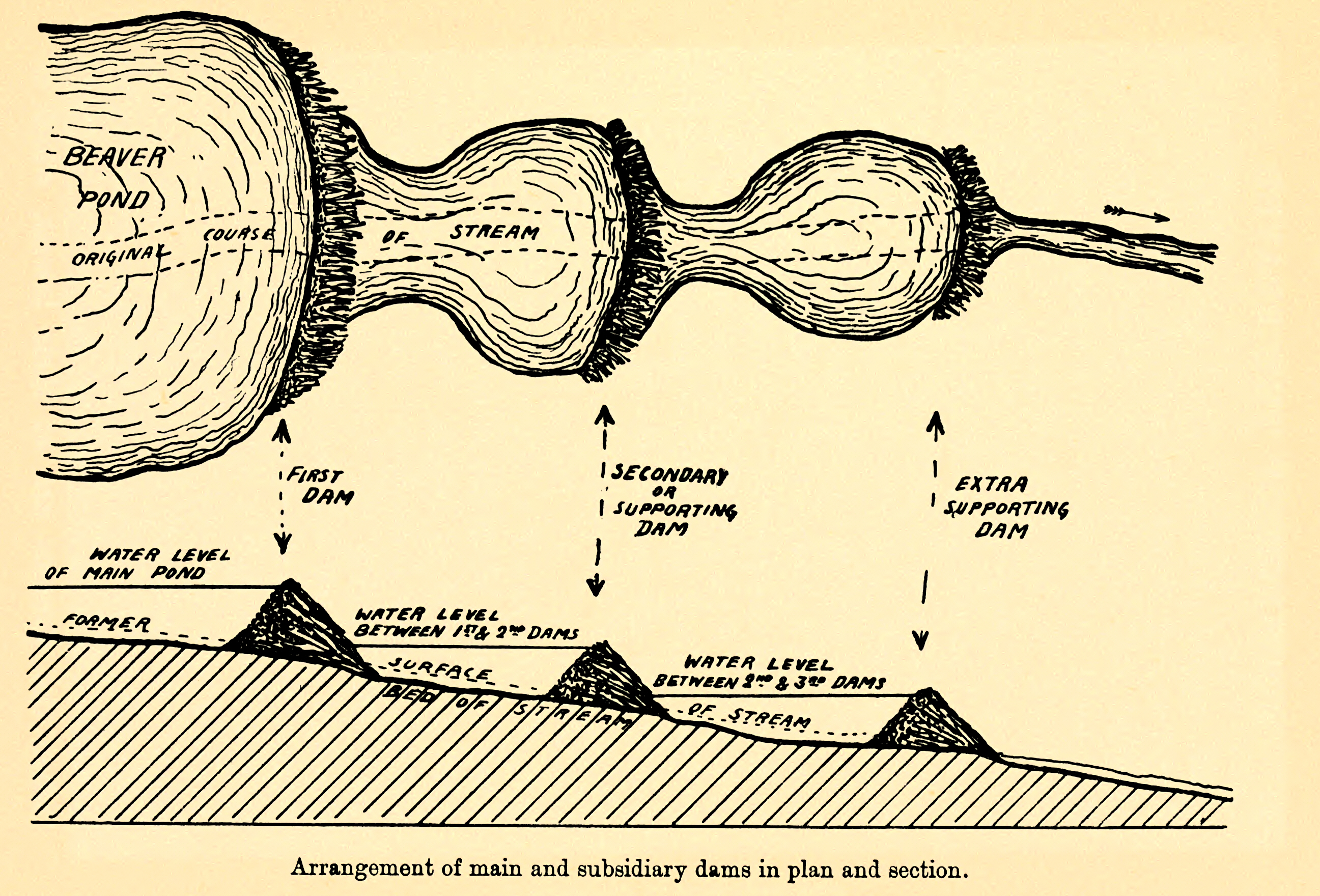 Illustration from the book The romance of the beaver; being the history of the beaver in the western hemisphere by Dugmore, Arthur Radclyffe, 1914.